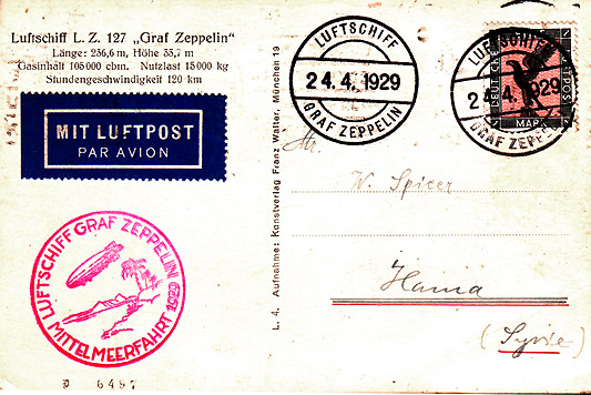 Flown ppc carried on the DLZ127 "Graf Zeppelin" on the "Mittelmeerfahrt" to Syria 1929 (The Cooper Collections) Photograph by uploader.